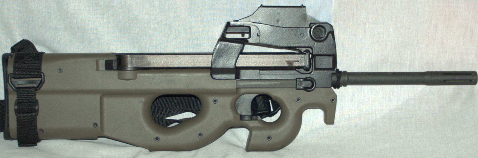 A FN P90 - Civilian Version (Long Barrel & Semi-Auto only)